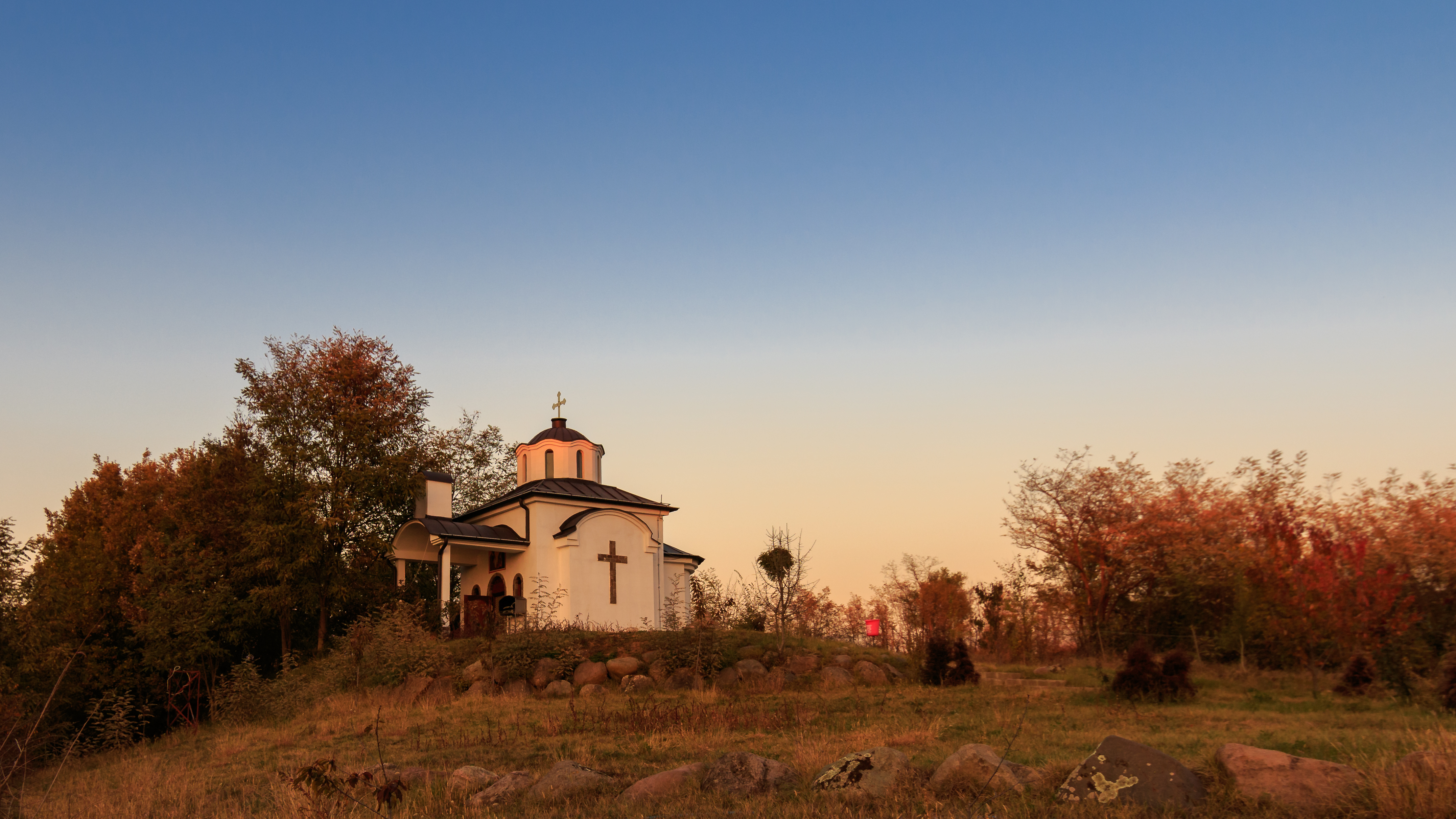 St. Paul's Church in the village Ginovci